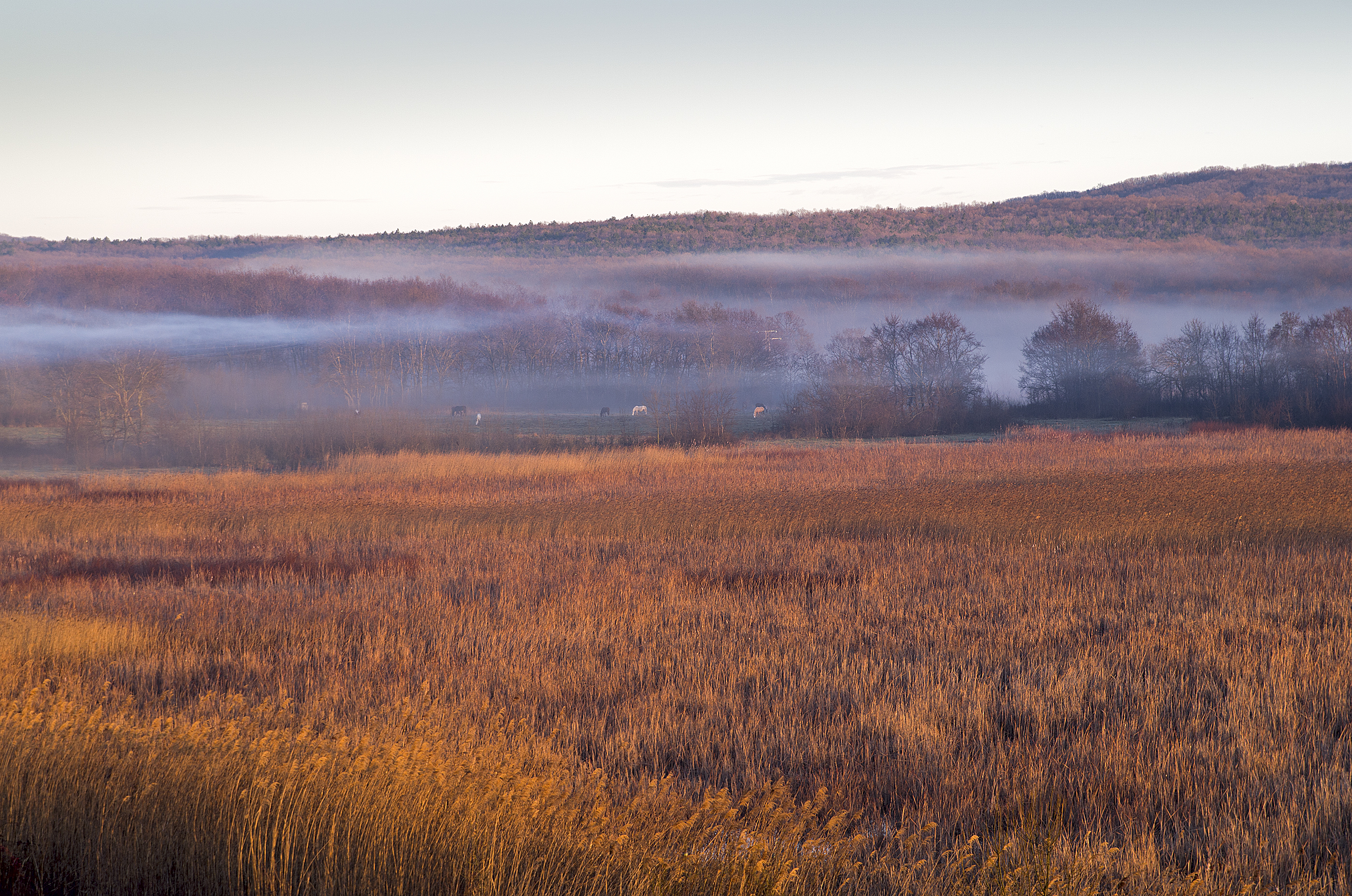 Stamopolu marsh